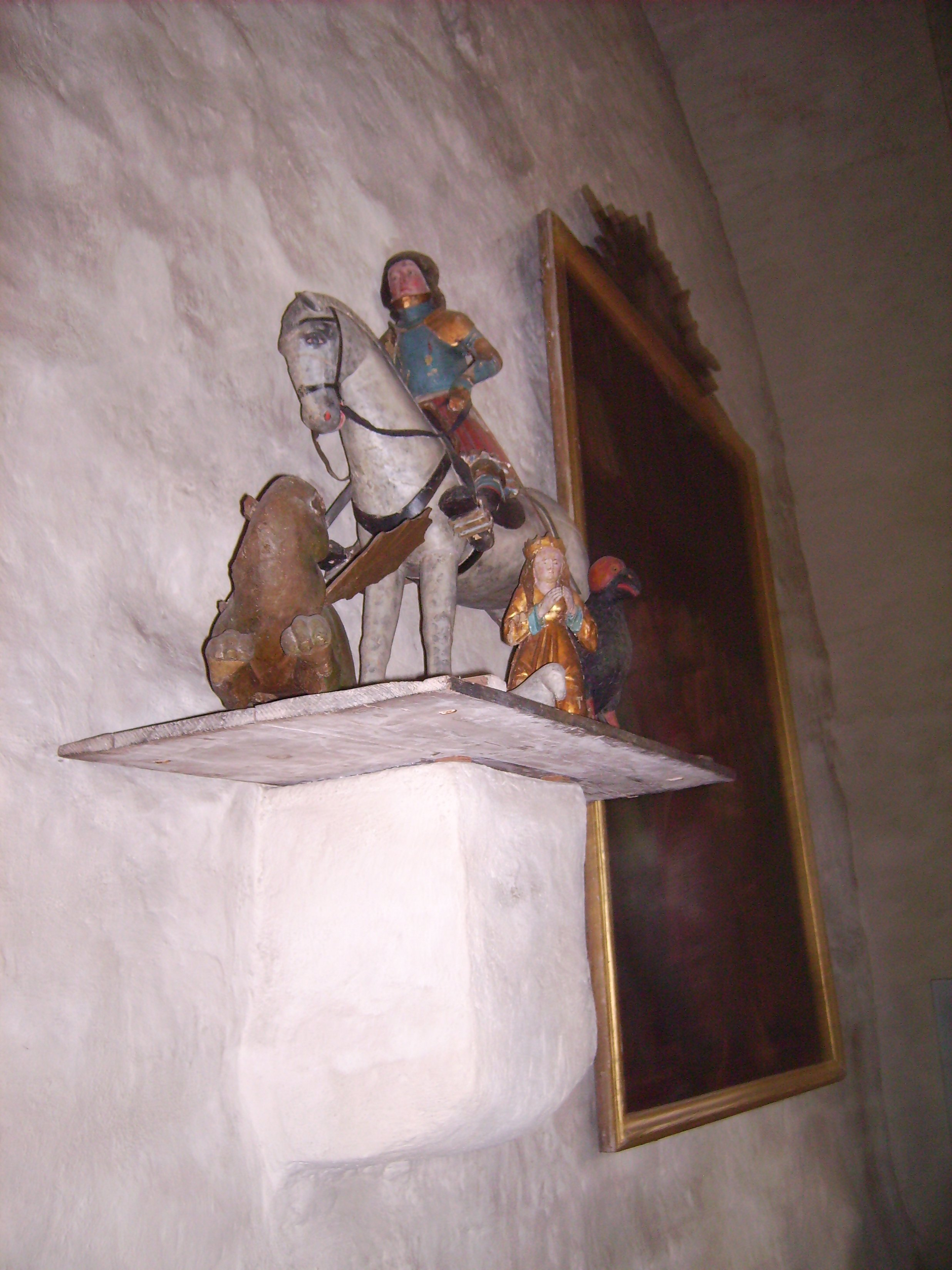 A statue in the medieval church in Korpo, Finland